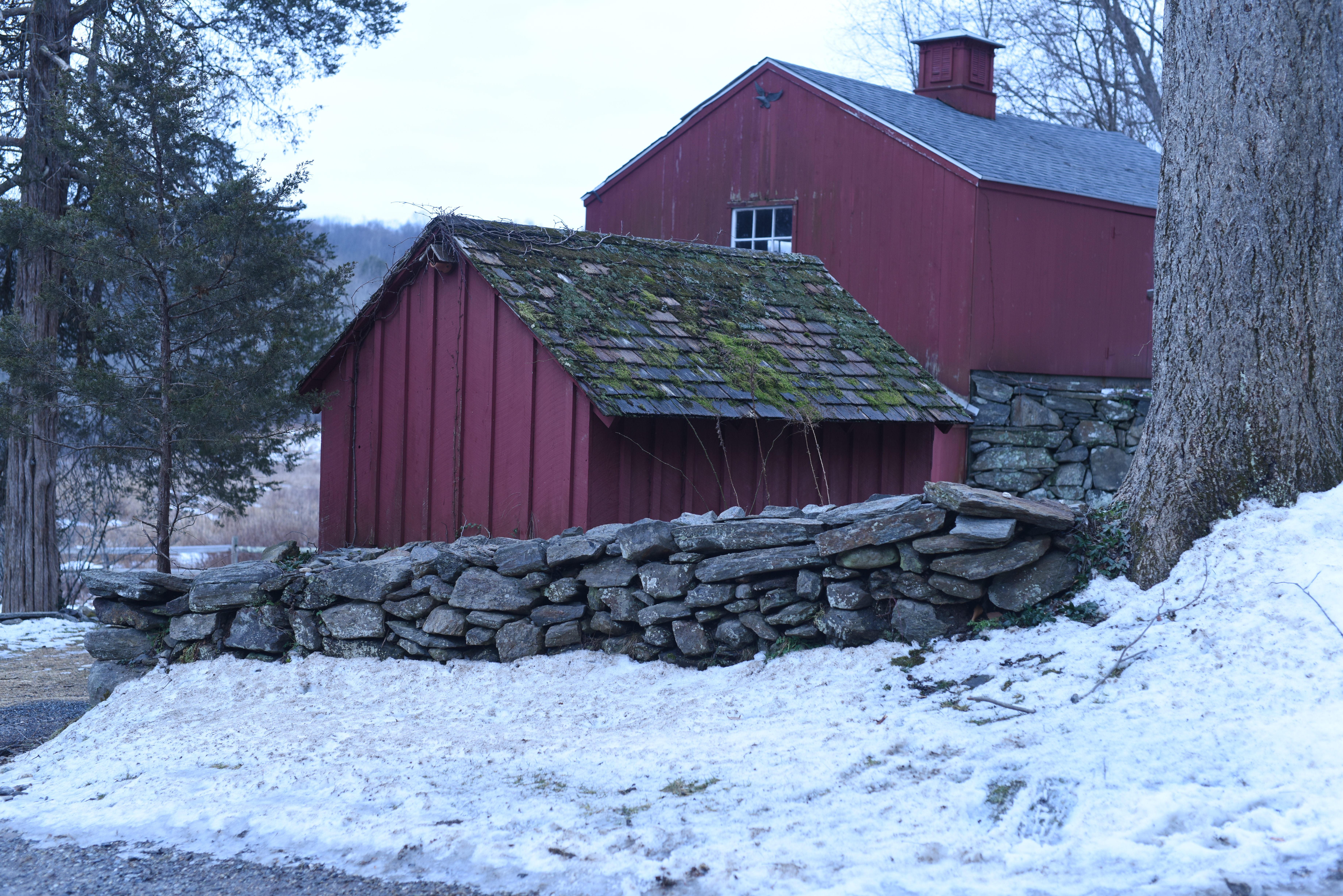 Audubon Center at the Bend of the River VIII